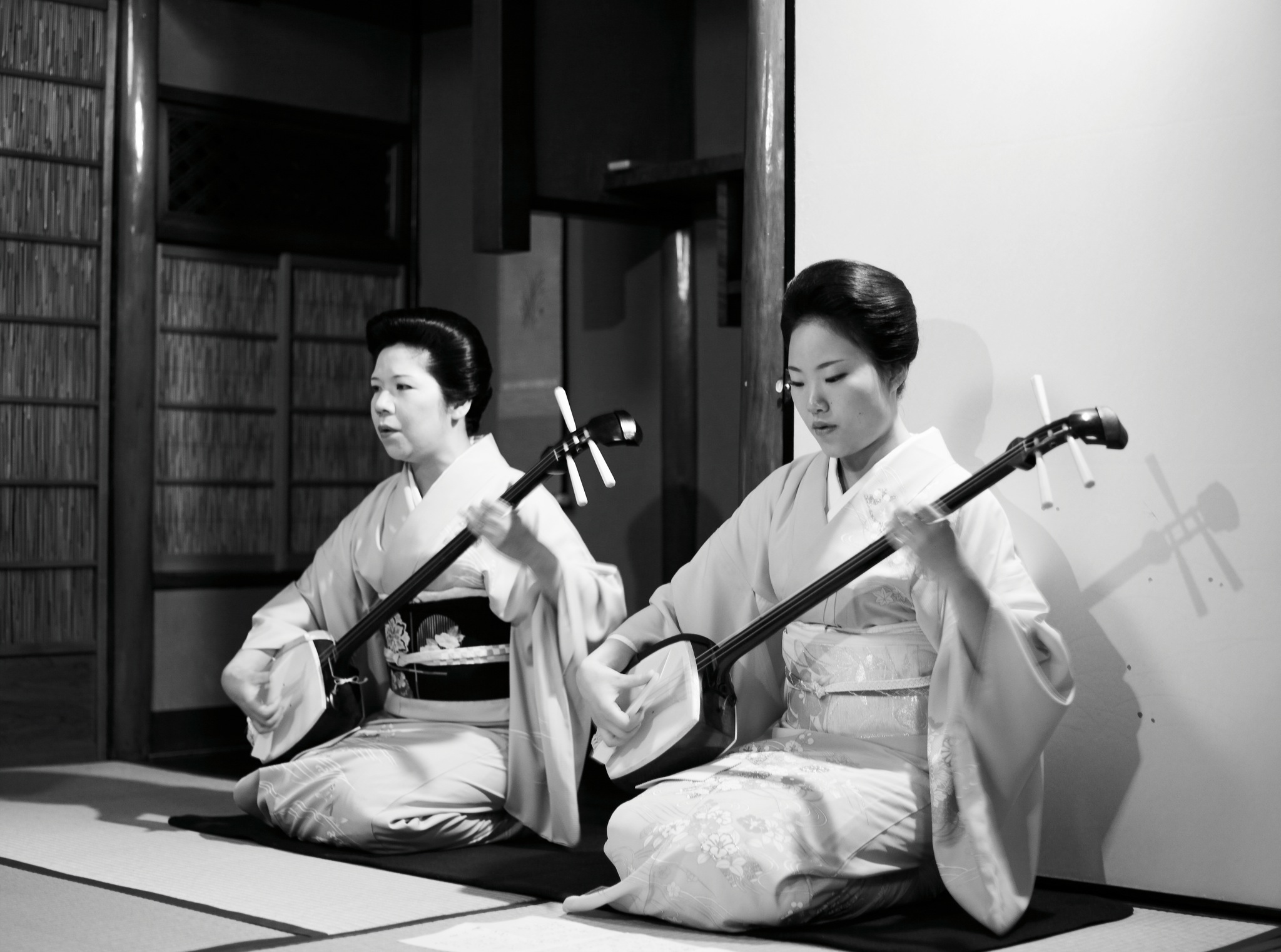 Geishas Komomo and Mameyoshi playing shamisen